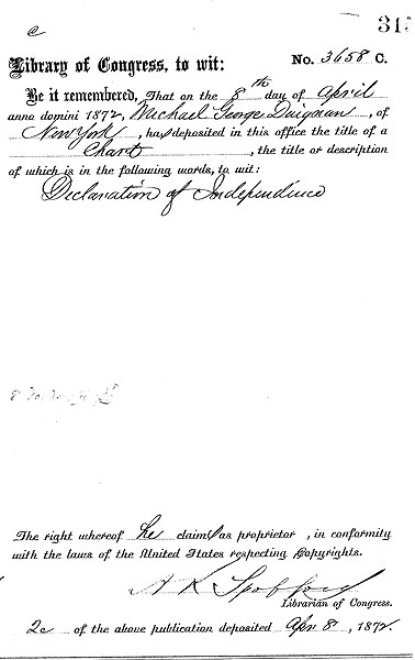 The 1872 Moss Declaration of Independence was copyrighted (above) by writer M.G. Duignan—the only individual to be granted ownership to America’s most sacred document. Presumably, Duignan was granted copyright because it was the first photo-engraved reproduction of the Declaration. The copyright is on file at the U.S. Copyright Office in Washington, D.C.